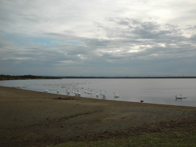 Utonai Lake, Hokkaido, Japan on Oct, 2005 ウトナイ湖 (北海道) 2005年10月撮影 Photographer ほくなん, this work is in PD